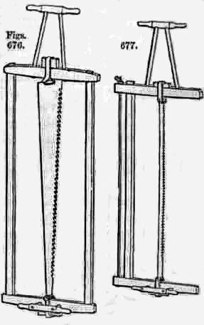 Diagrams of two whipsaws from old catalogue